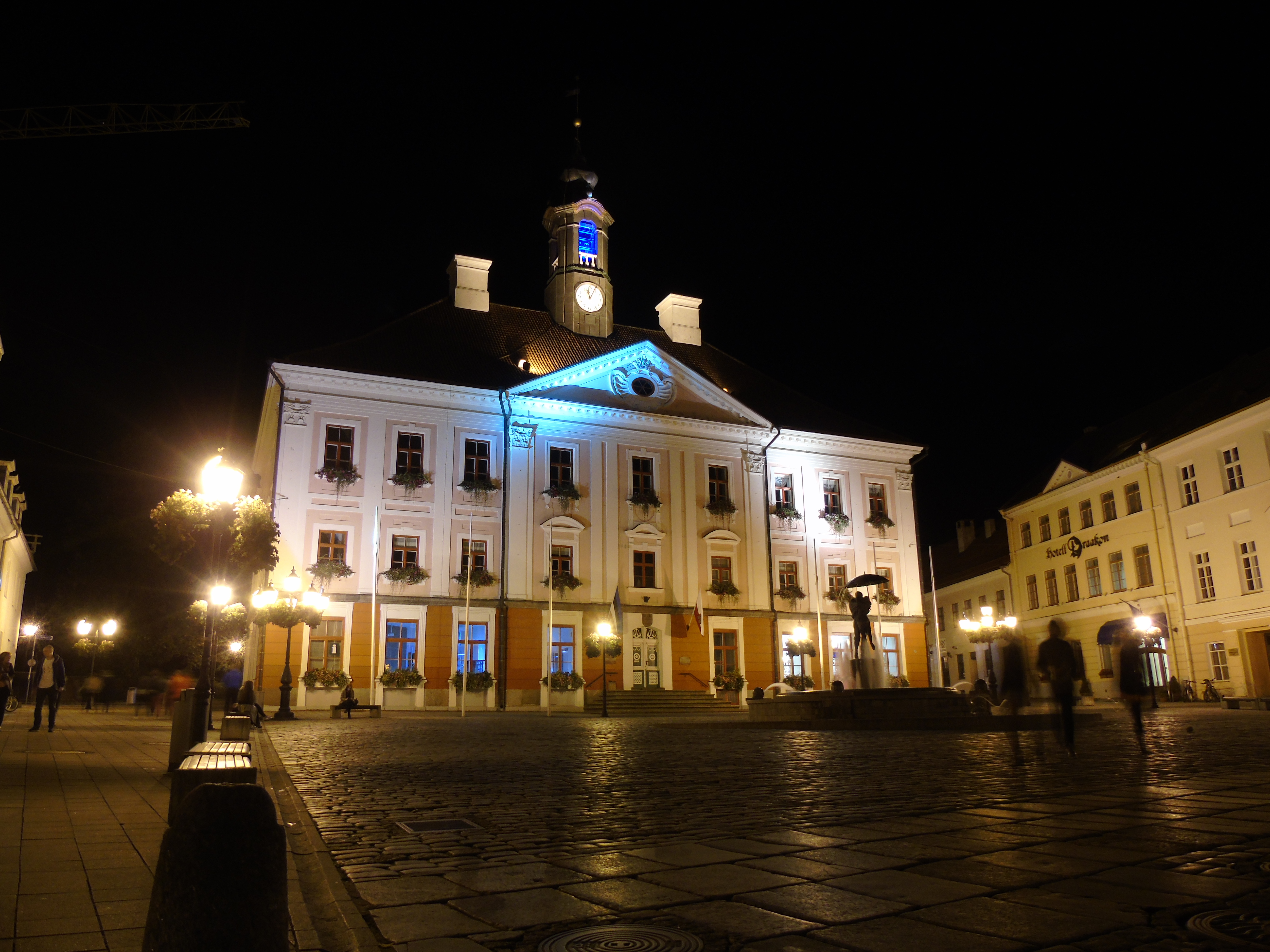 The Town Hall of Tartu